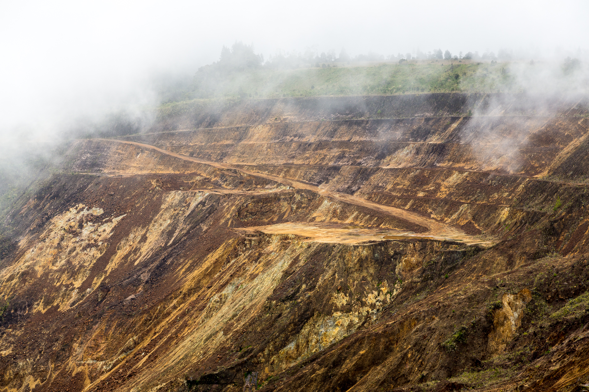 Ranau, Sabah: Mamut Copper Mine - view from the crater rim to the slopes where they were cropping the rocks